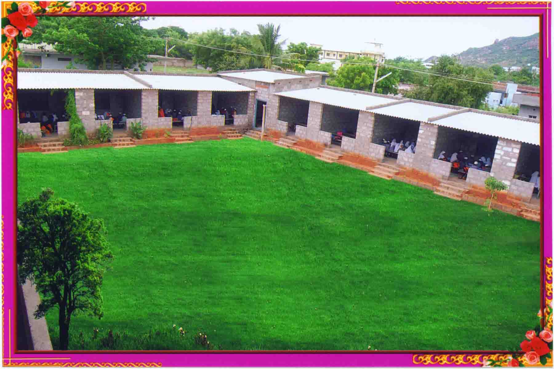 School ground